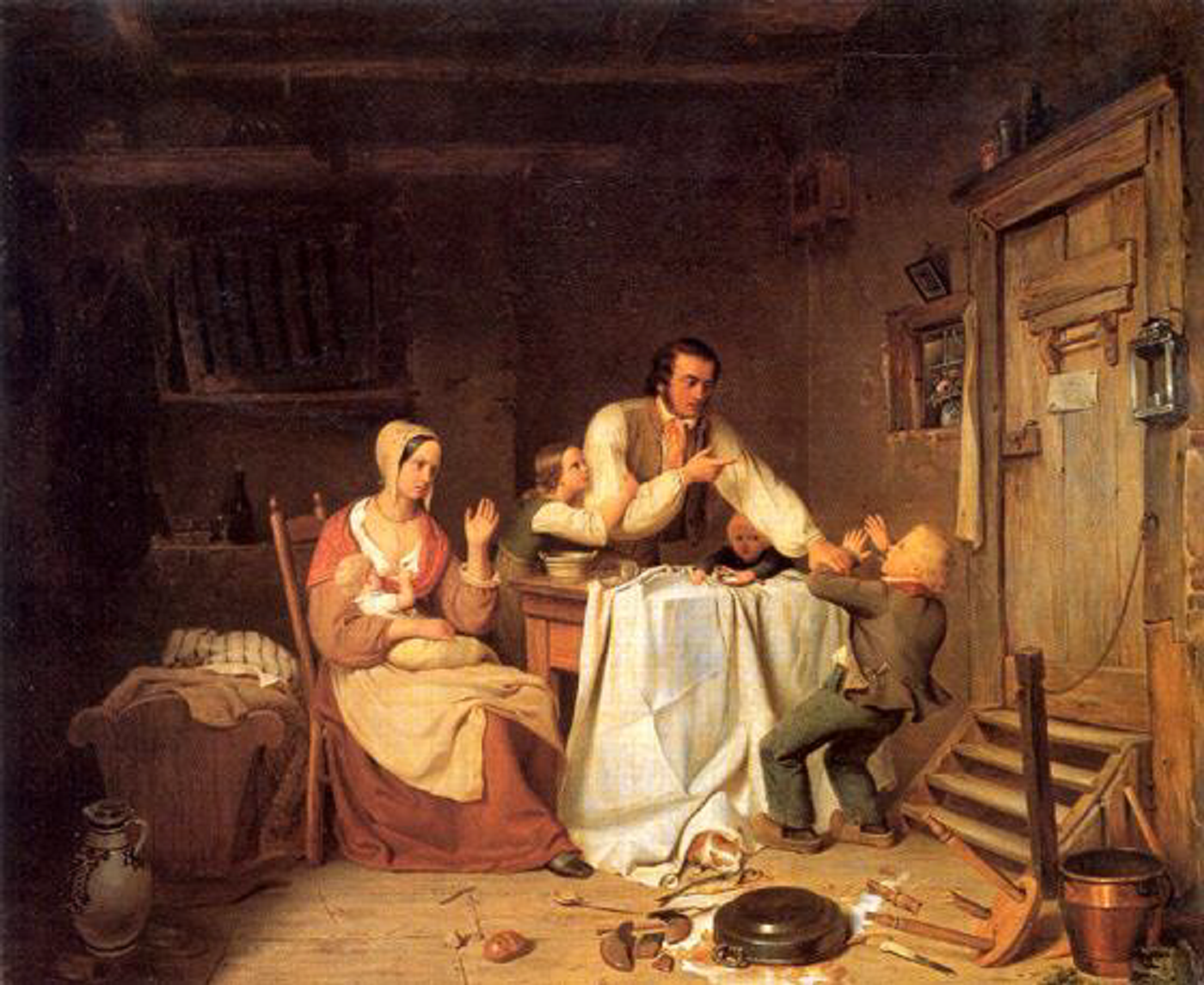 Heinrich von Rustige (1810-1900): Interrupted Meal, 1838; oil on canvas; 60 x 71,5 cm; Staatliche Kunsthalle, Karlsruhe / Germany